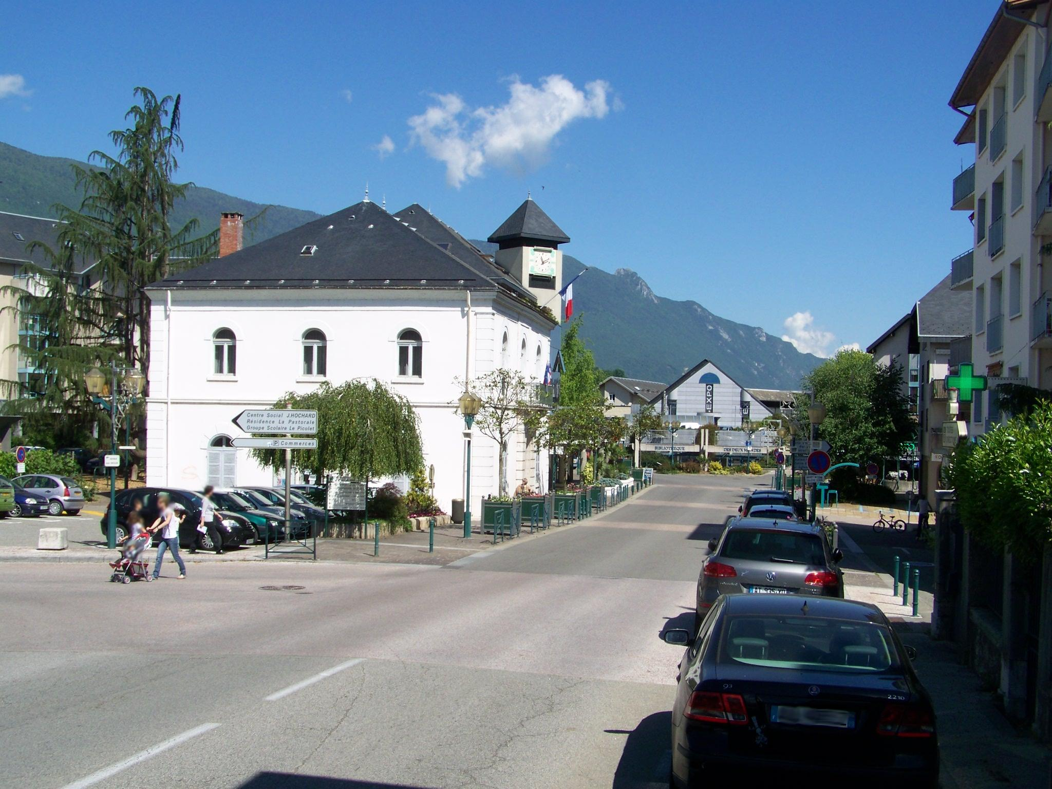 City center of La Motte-Servolex near Chambéry in Savoie, France.